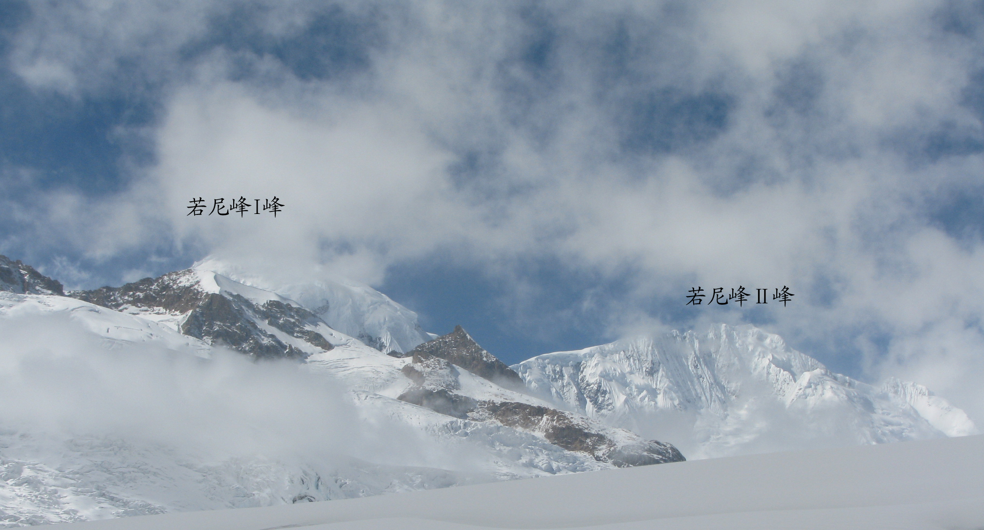 RuoniI and RuoniⅡ